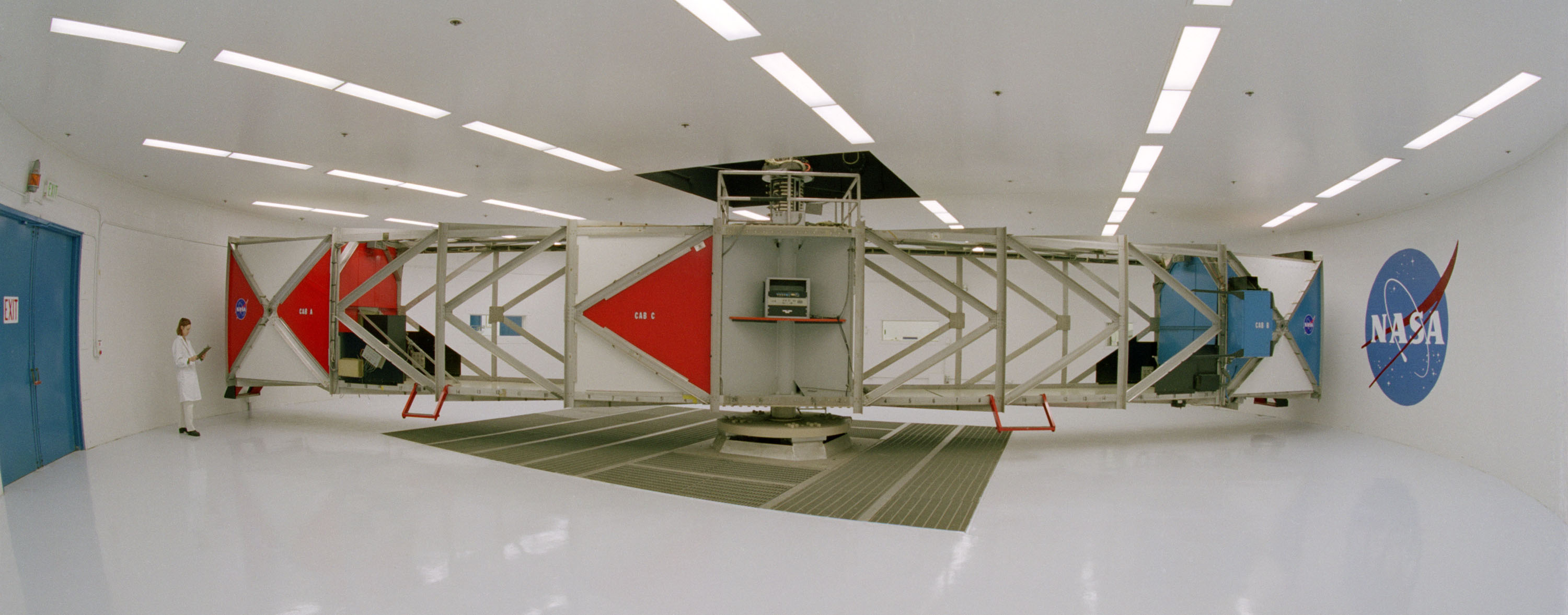 The 20G centrifuge at NASA's Ames Research Center, Moffett Field, California.